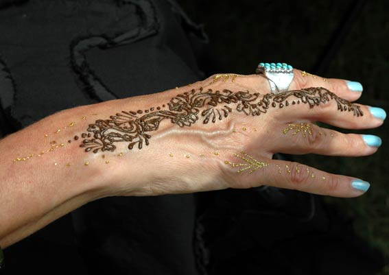 Hand recently decorated with henna (mehendi), glitter and turqoise nail polish at London Mela 2006